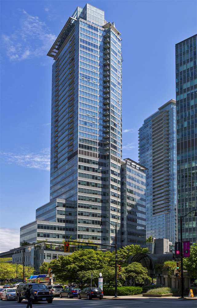 Shaw office and residential tower in Vancouver.